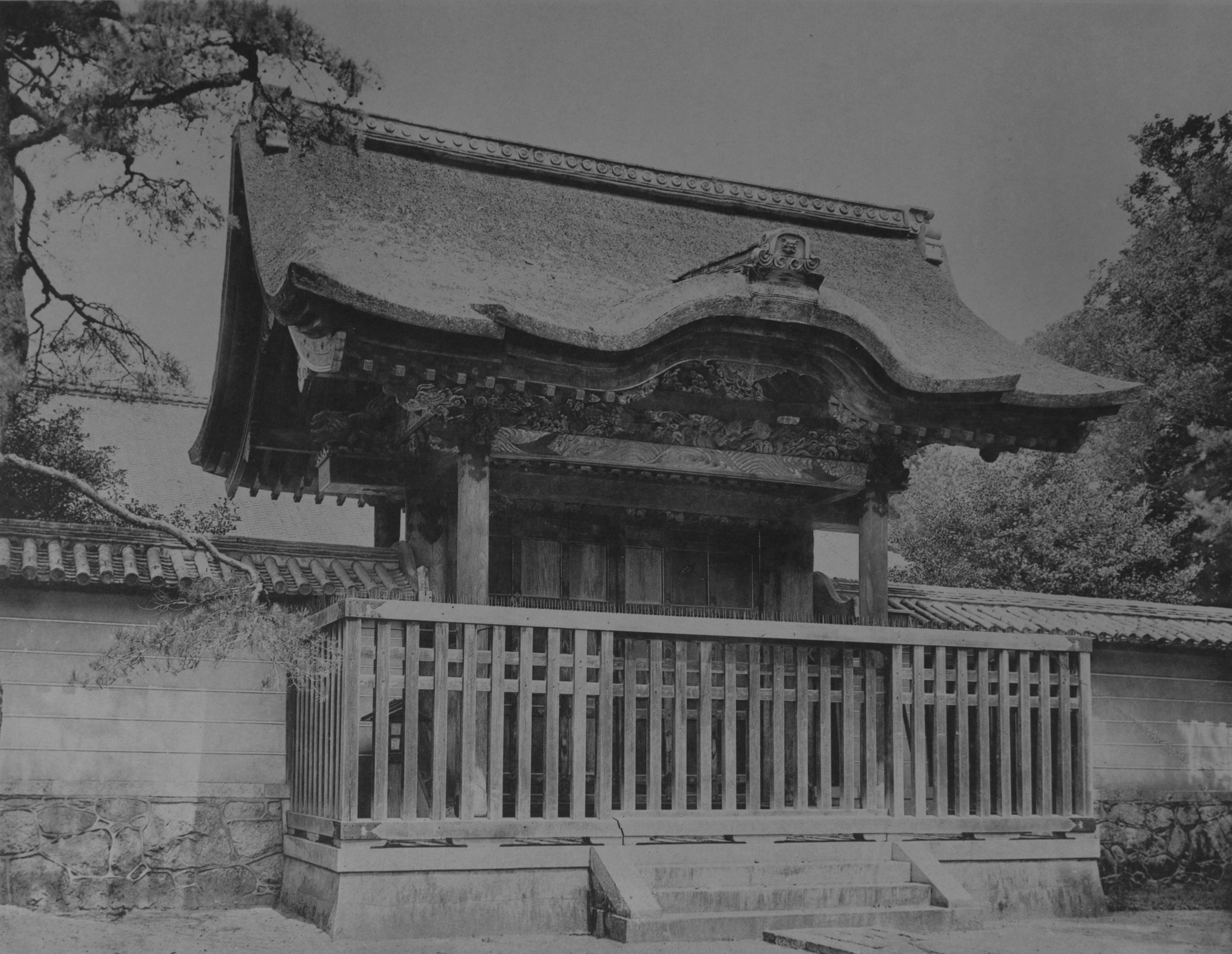 Daitokuji, Kyoto, Japan